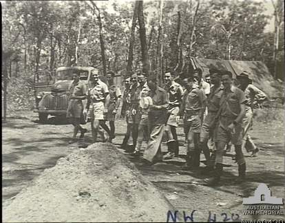 AWM caption : Strauss, NT. 1942-05-11. The Honourable Mr Arthur Drakeford, Minister for Air and Civil Aviation (centre, holding hat), on a tour of No. 76 (Kittyhawk) Squadron RAAF base with members of the Squadron.